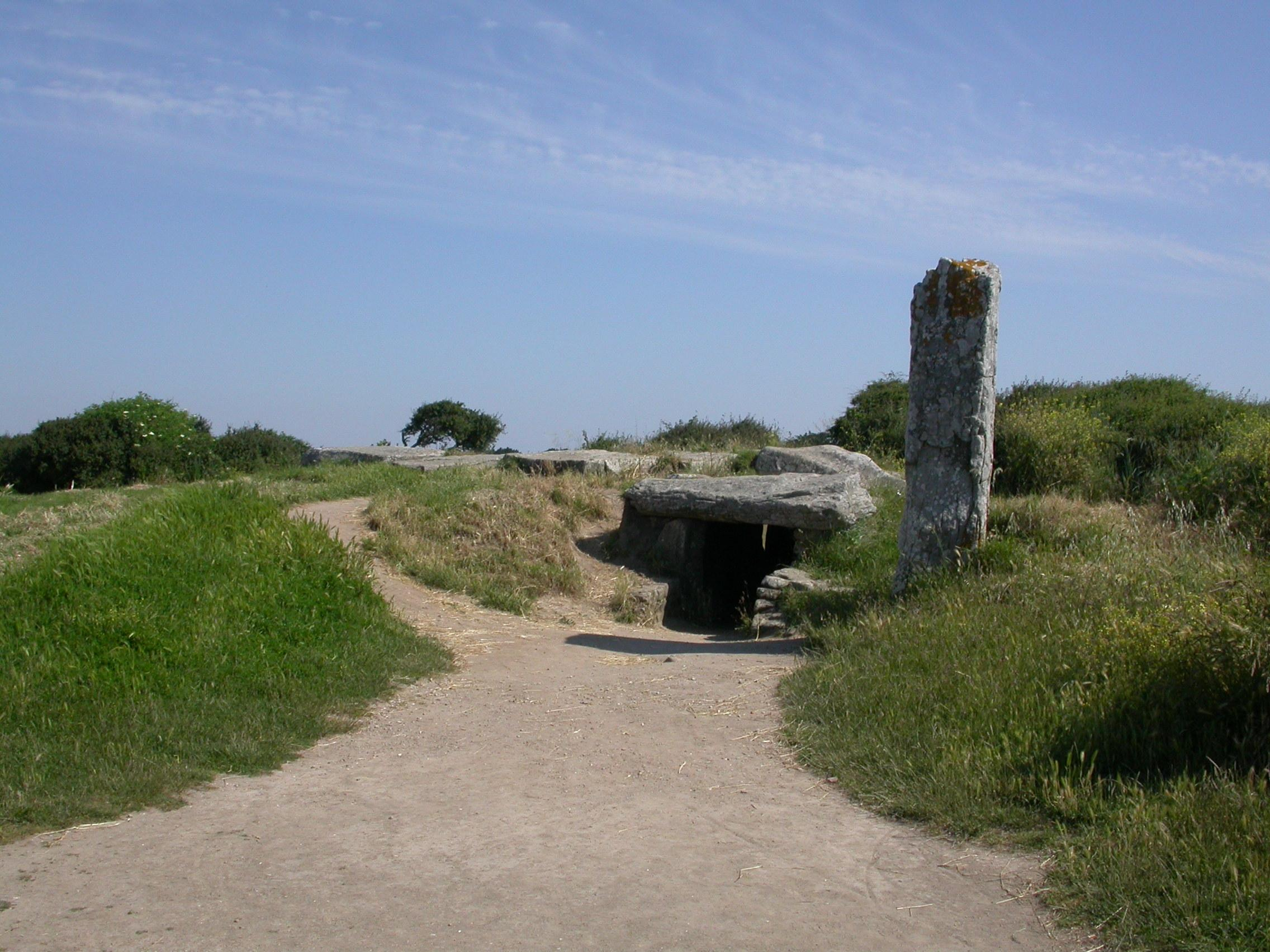 Les Pierres Plates